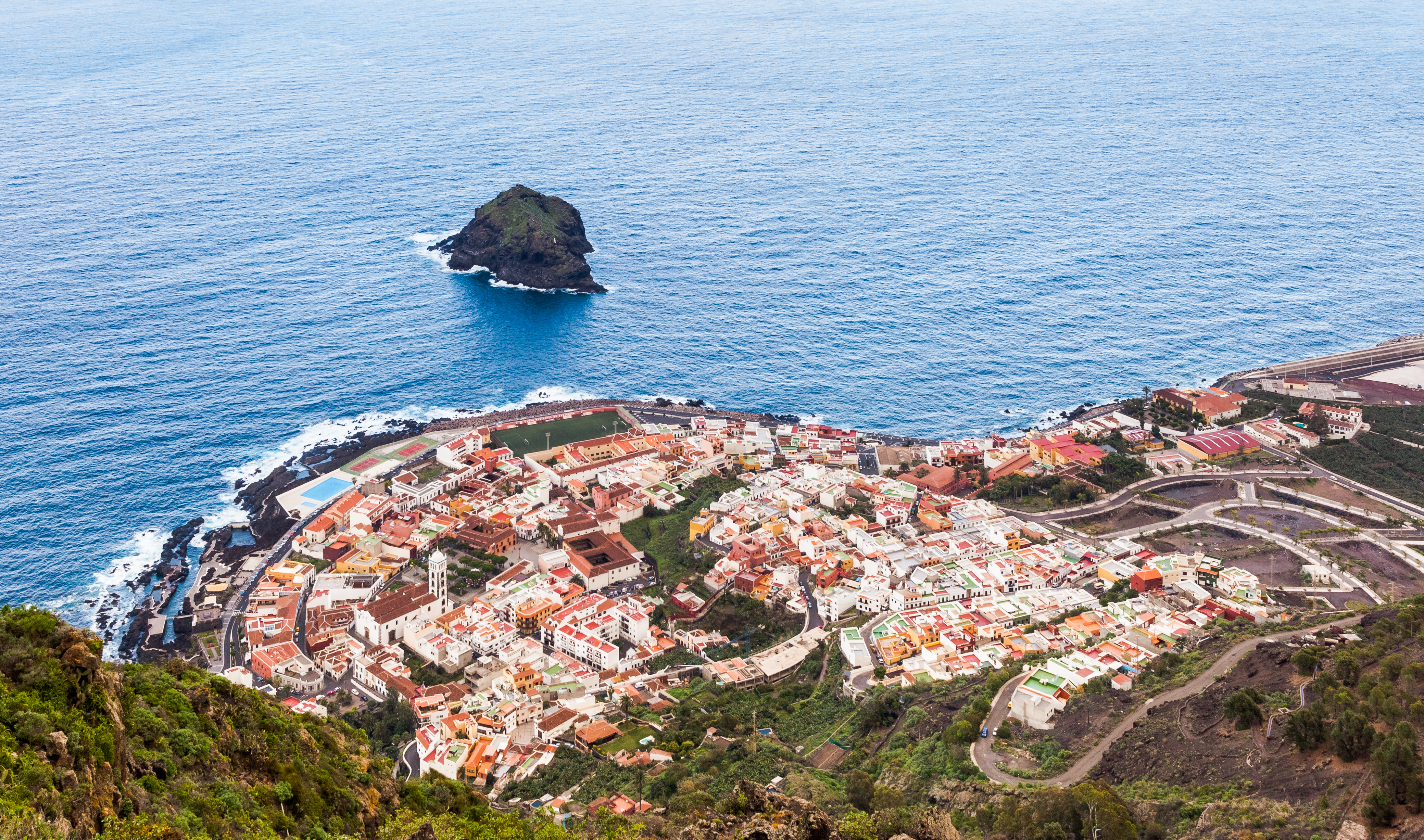 View of Garachico, Tenerife, Spain